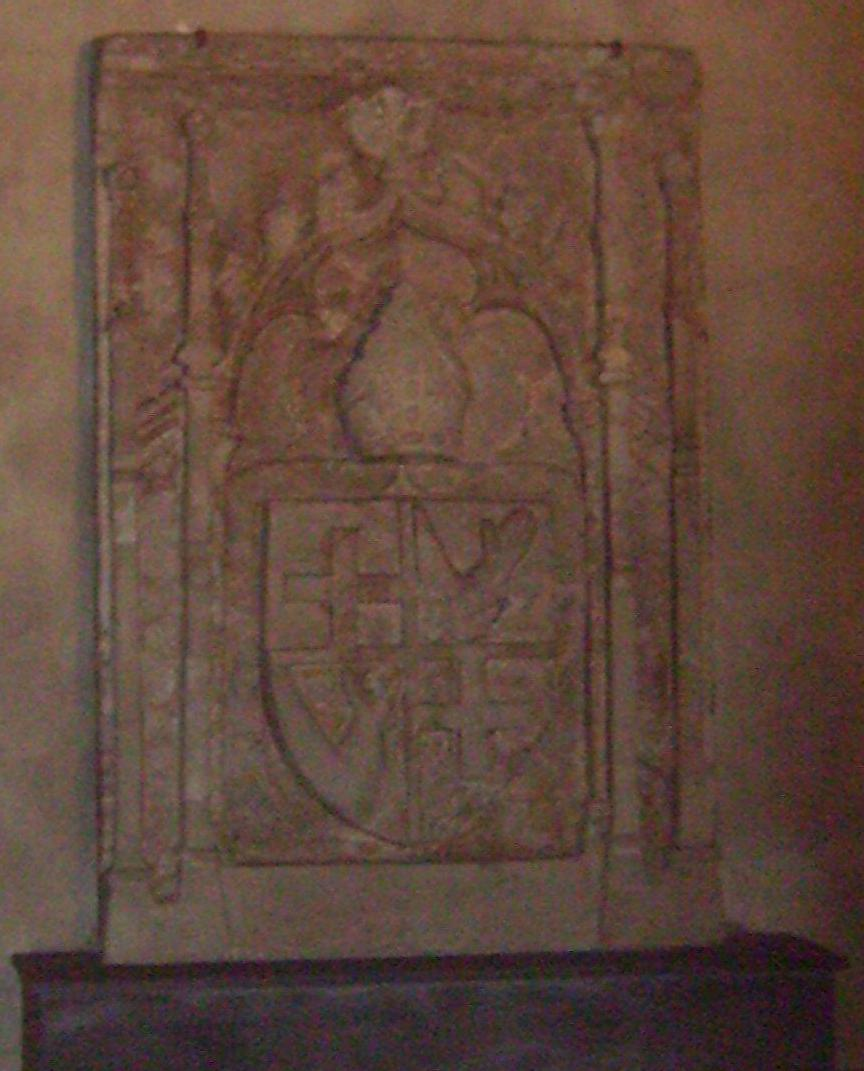 Cathedral of Åbo, Finland.